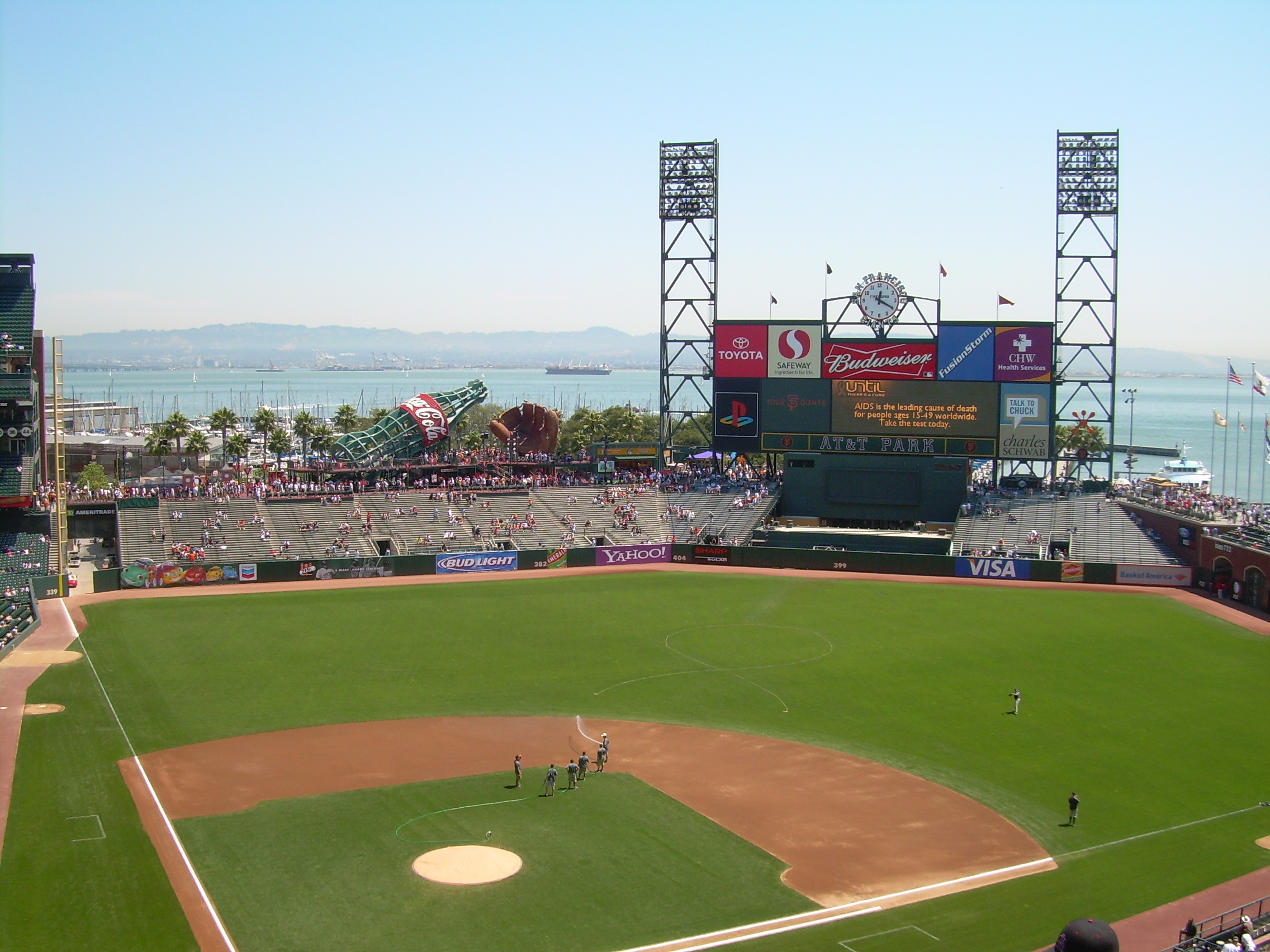 self